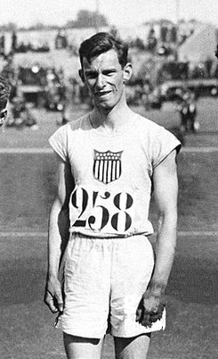 Olympic Games, Paris, France, Men's 200 Metres, Bayes Norton